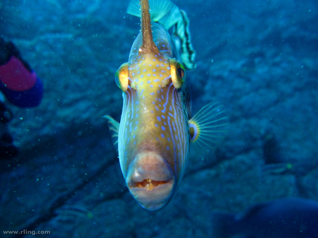 A Six-spine Leatherjacket (Meuschenia freycineti). Skeleton Rock, Forster, NSW